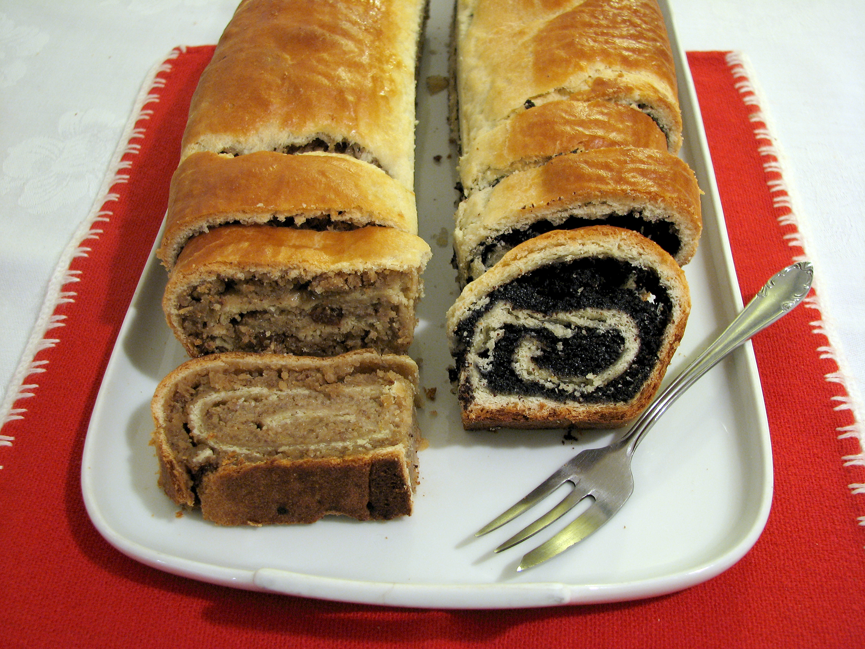 Bejgli (sometimes beigli), a Hungarian pastry, eaten at Christmas and Easter. The left one is filled with walnut, the right one with poppyseed.